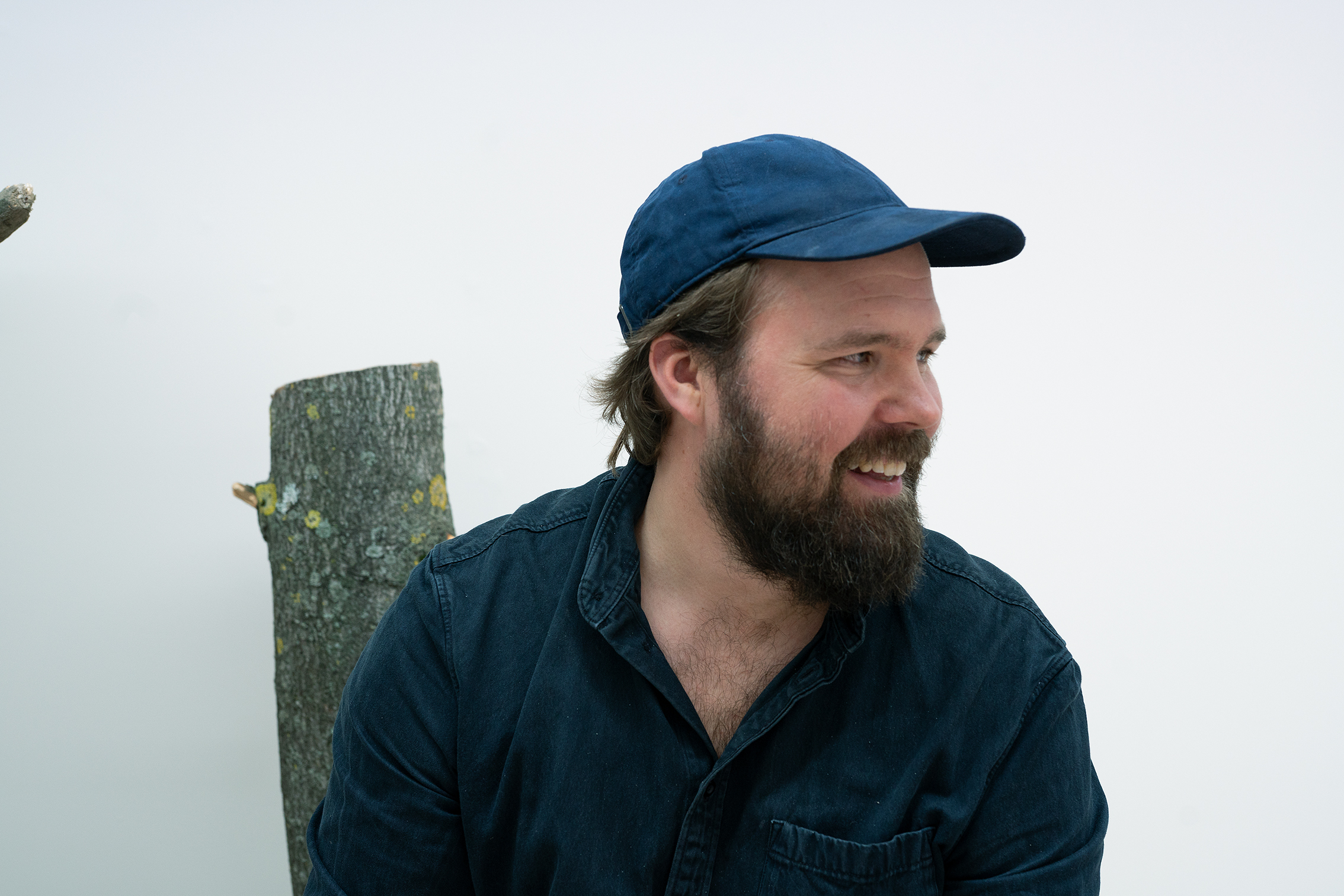 Teemu Lehmusruusu, building the installation 'Parent Matter' at his studio, EMMA 2018. Photo: Ari Karttunen / EMMA